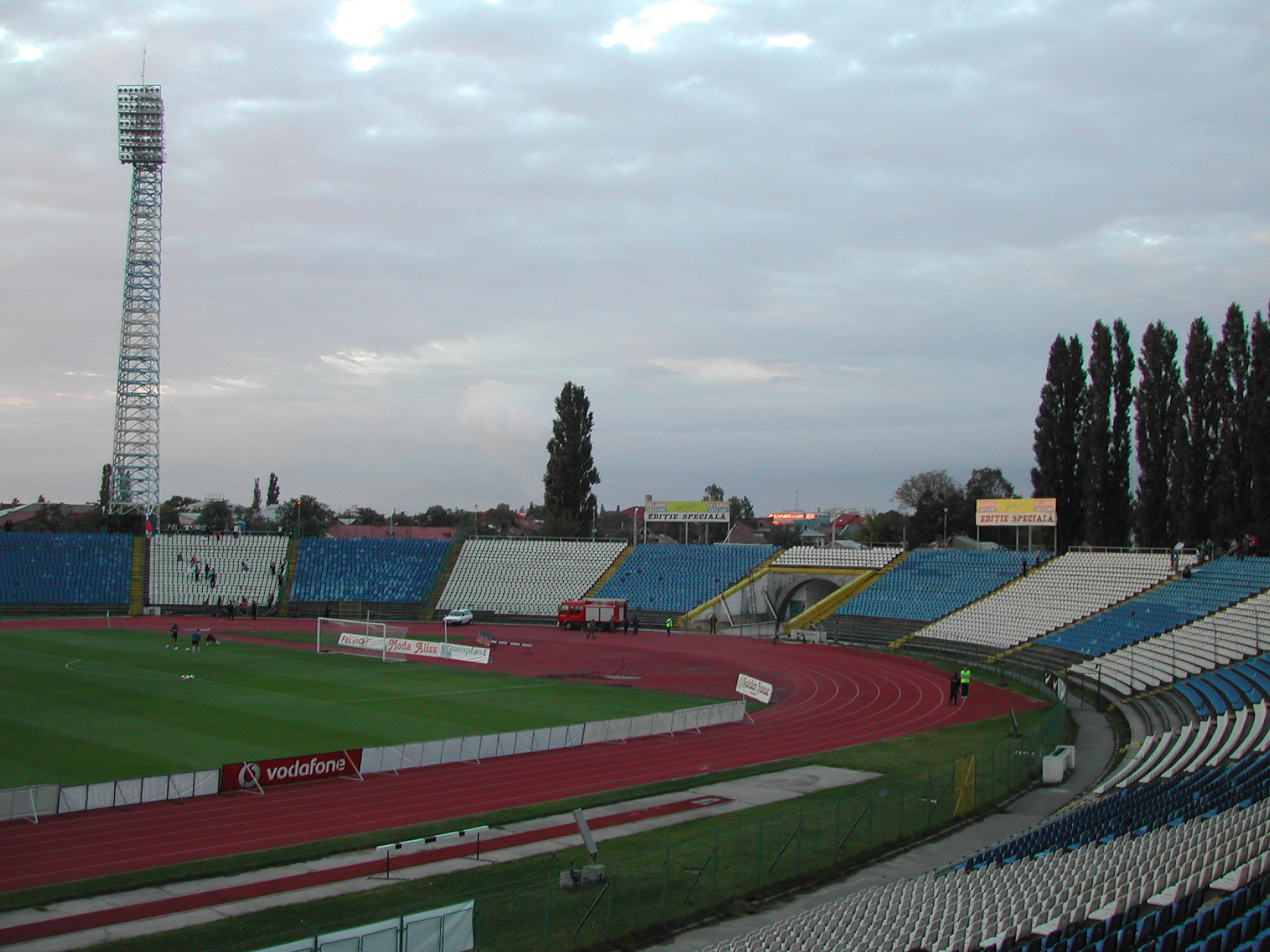 This picture shows the stadium Ion Oblemenco in Craiova, Romania.